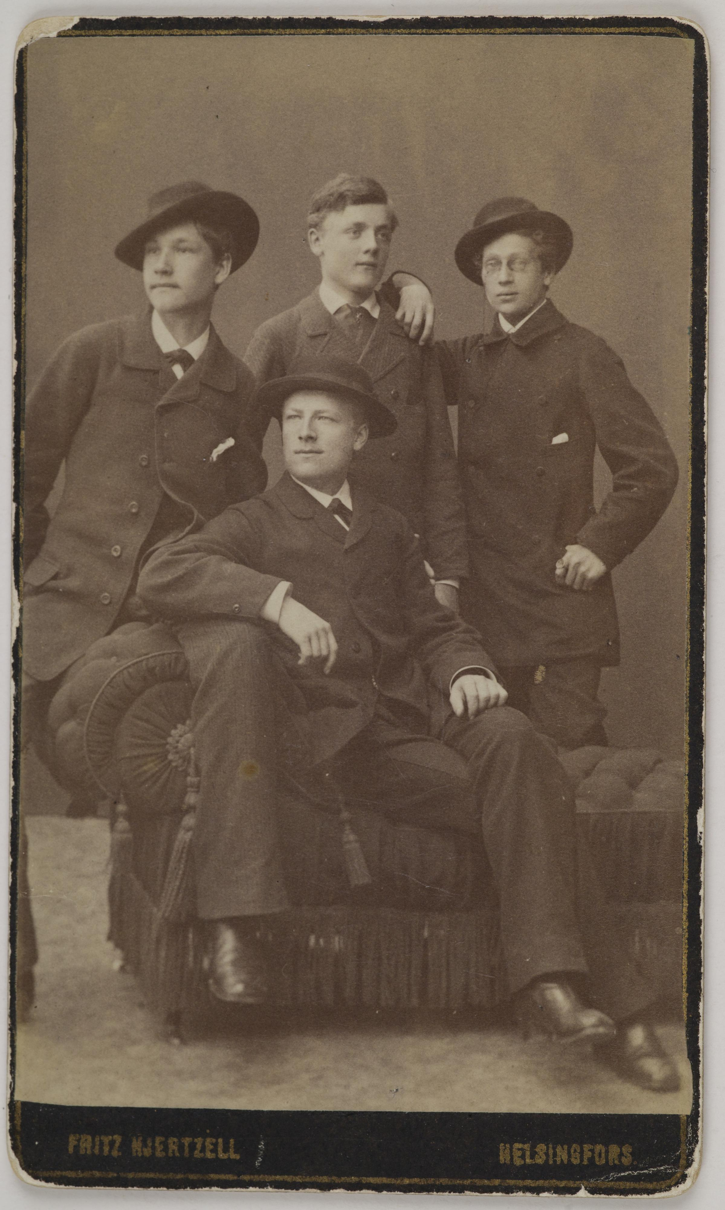 Taideyhdistyksen piirustuskoulun nuoria opiskelijoita ryhmämuotokuvassa Helsingissä keväällä 1883. Divaanilla istuu Emil "Wiikka" Wikström ja käsinojalla Axel Gallén, divaanin takana seisovat Oskar Svennberg (hatutta) ja Samuel von Bell. kuvauspaikka: Helsinki ajoitus: kevät 1883 kuvaaja: Fritz Hjertzell kuva-alan mitat: 97x62mm tekniikka: merkintöjä: inventointinumero: Kot. 1 a/2 kokoelma: Akseli Gallen-Kallelan valokuvakokoelma tutki lisää / explore further: Tiedätkö lisää tästä kuvasta? Kerro meille! Do you have information on this photo? Let us know!